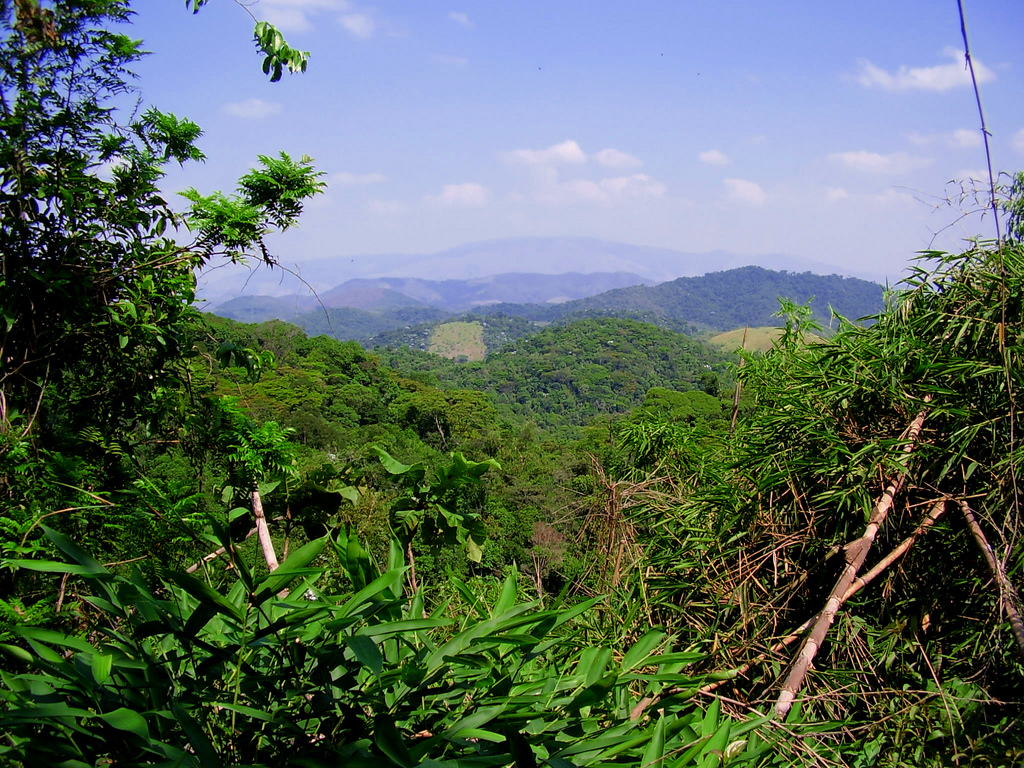 Serra do Tinguá (mountains) — in Tinguá, Rio de Janeiro state, Brasil-Brazil. Atlantic Forest ecoregion flora (Mata Atlântica).